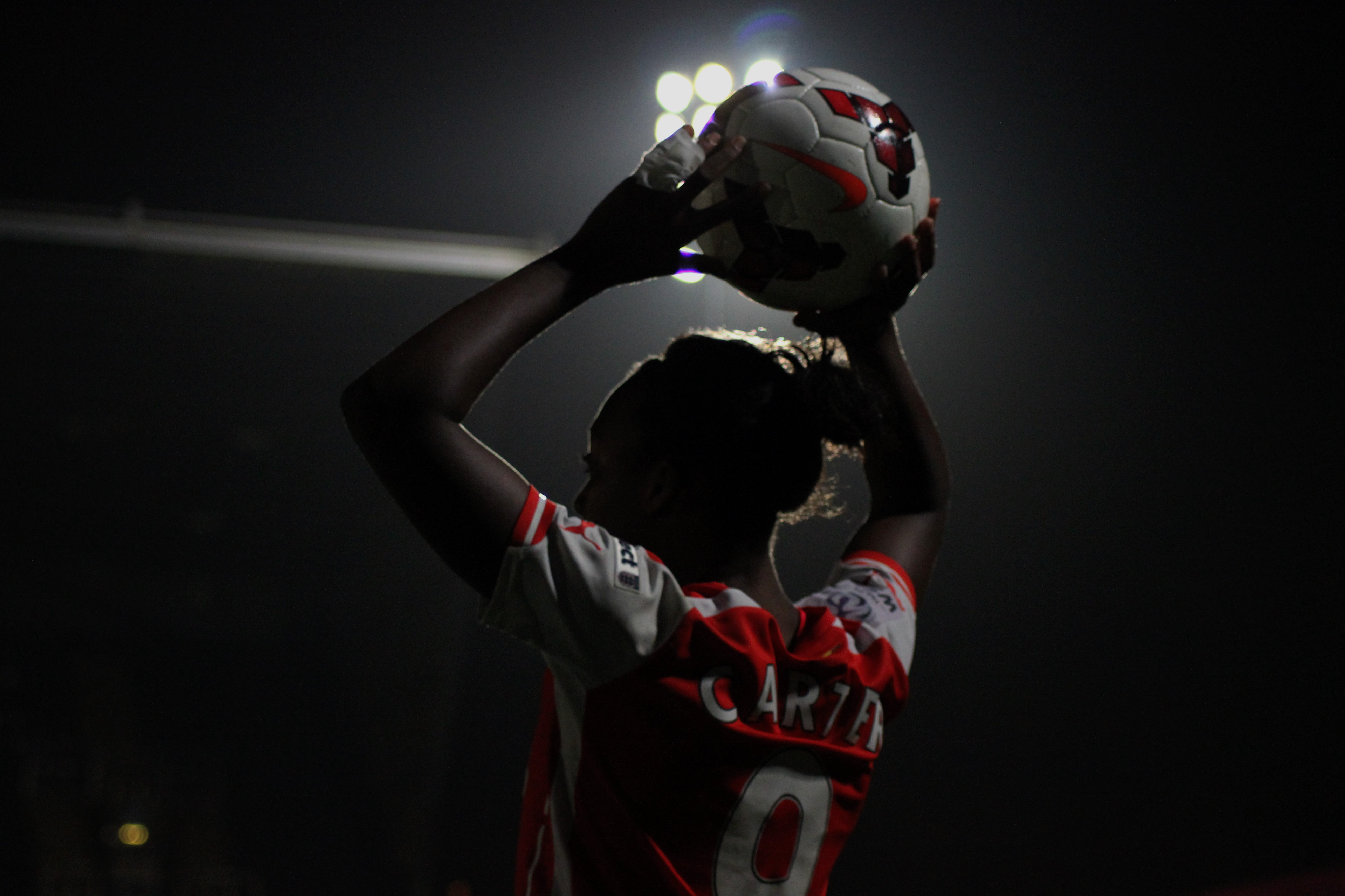 Danielle Carter of Arsenal Ladies takes a throw-in against Manchester City Ladies during the Continental Cup Final